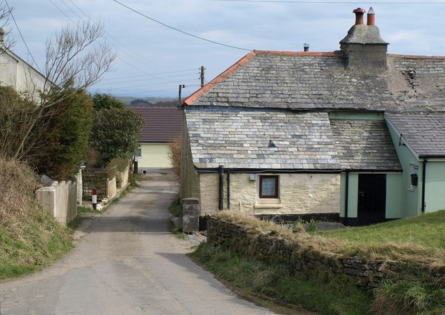 Trewassa. Cottages at the hamlet; this forms part of the scene in 730315.